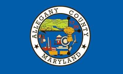 County seal on blue.